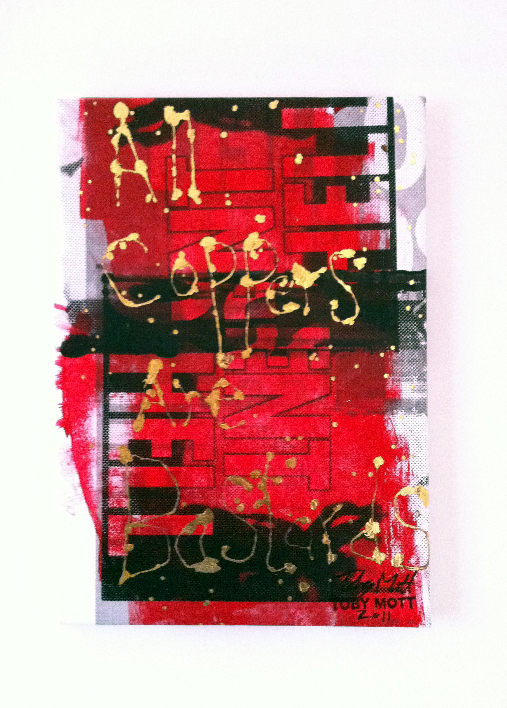 A painting by the artist Toby Mott titled 'All Coppers Are Bastards'